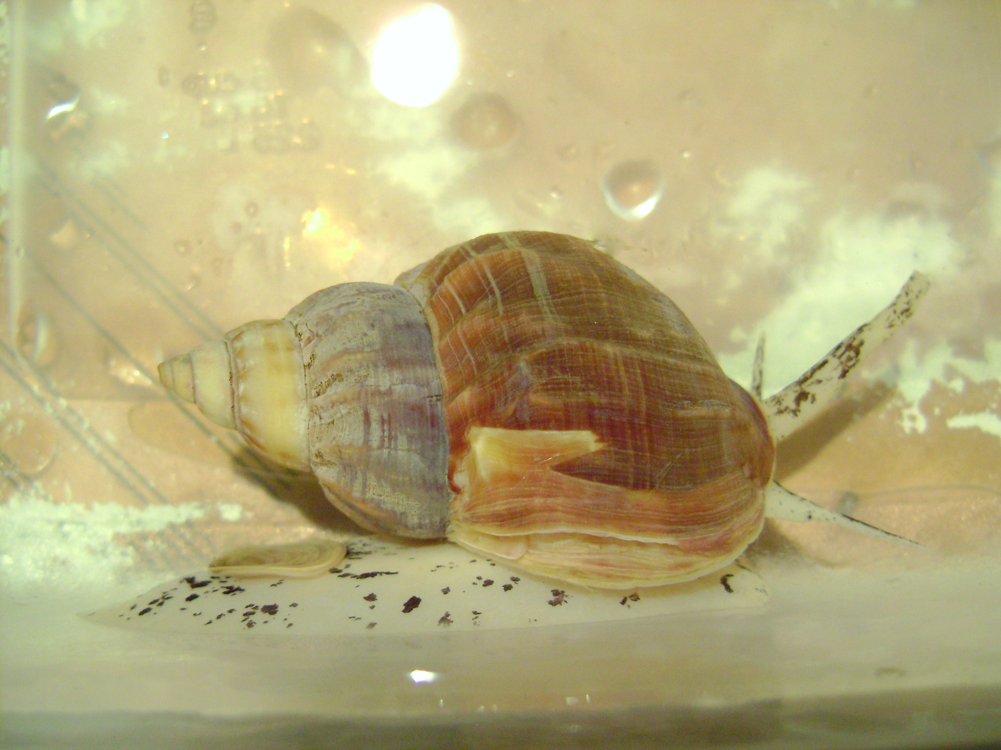 Common whelk (Buccinum undatum), living in the tank of theSaint-Lawrence Exploration Center, in Rivière-du-Loup, Québec